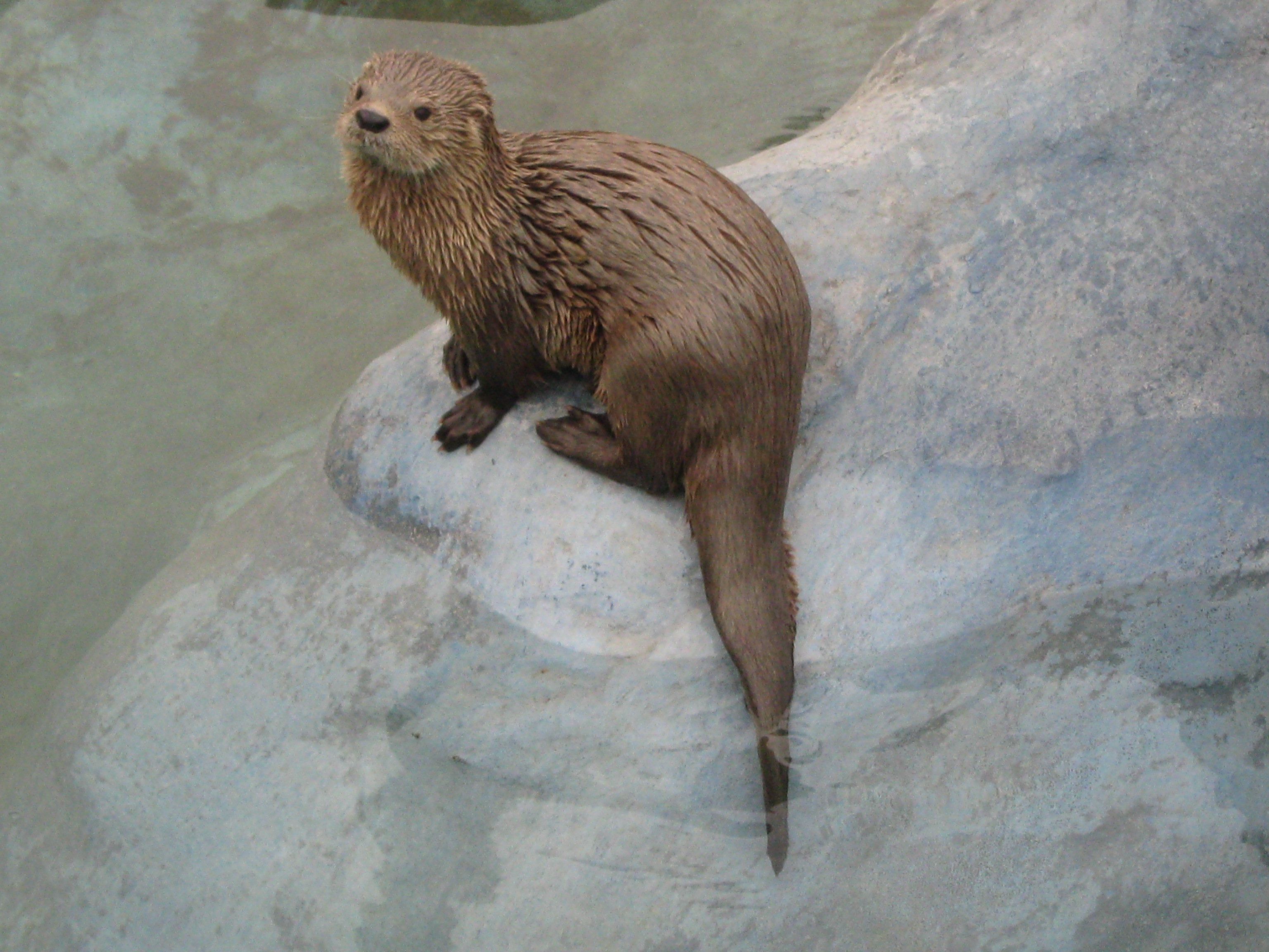 Marine otter (Lontra felina) at Huachipa Zoo in Lima, Peru.